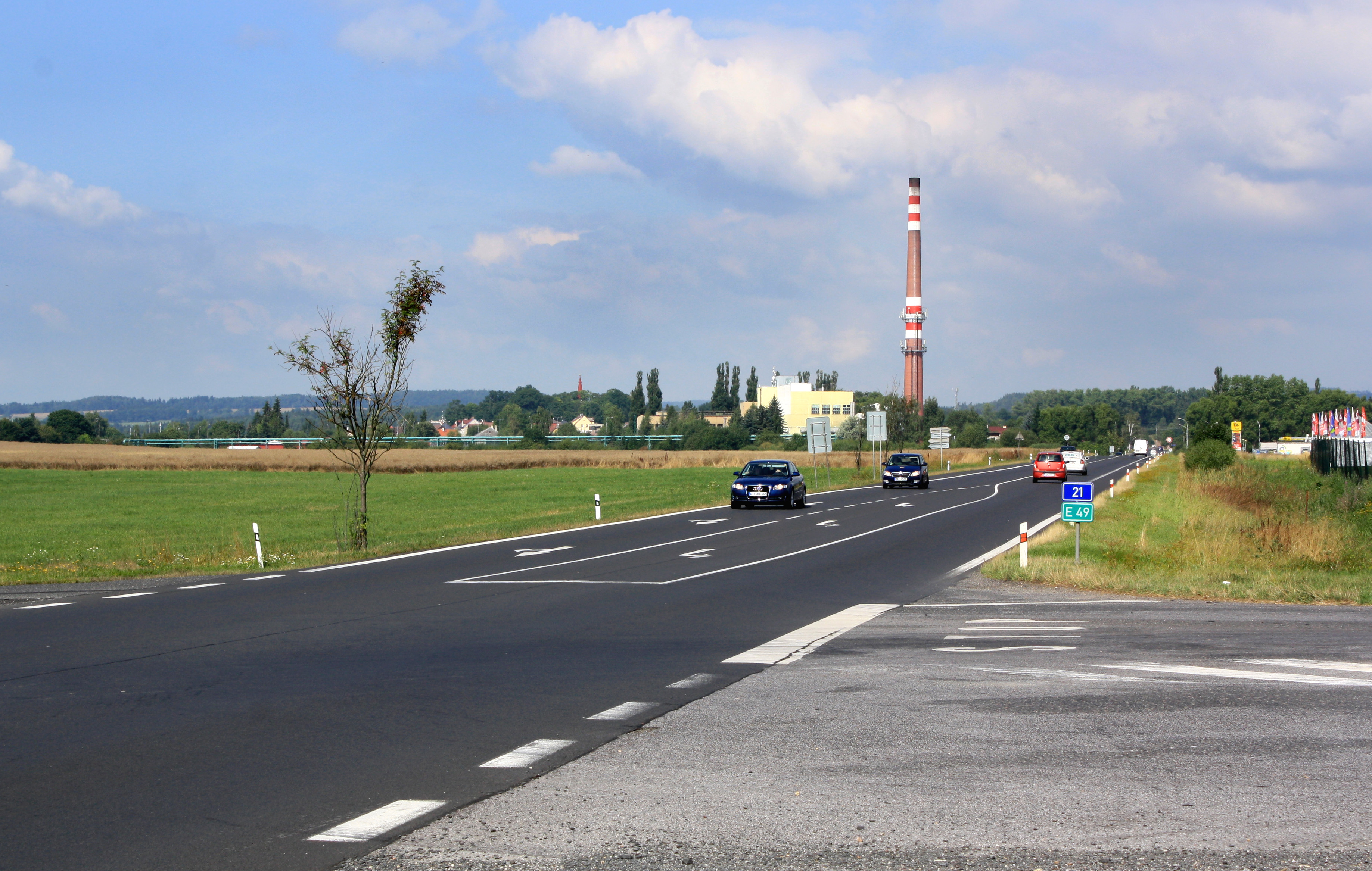 Road No 21 in Aleje-Zátiší, part of Františkovy Lázně, Czech Republic